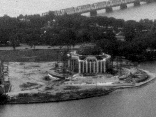 The Jefferson Memorial under construction in 1940, as seen from the top of the Washington Monument. Cropped from family photo owned by User:Postdlf [1].